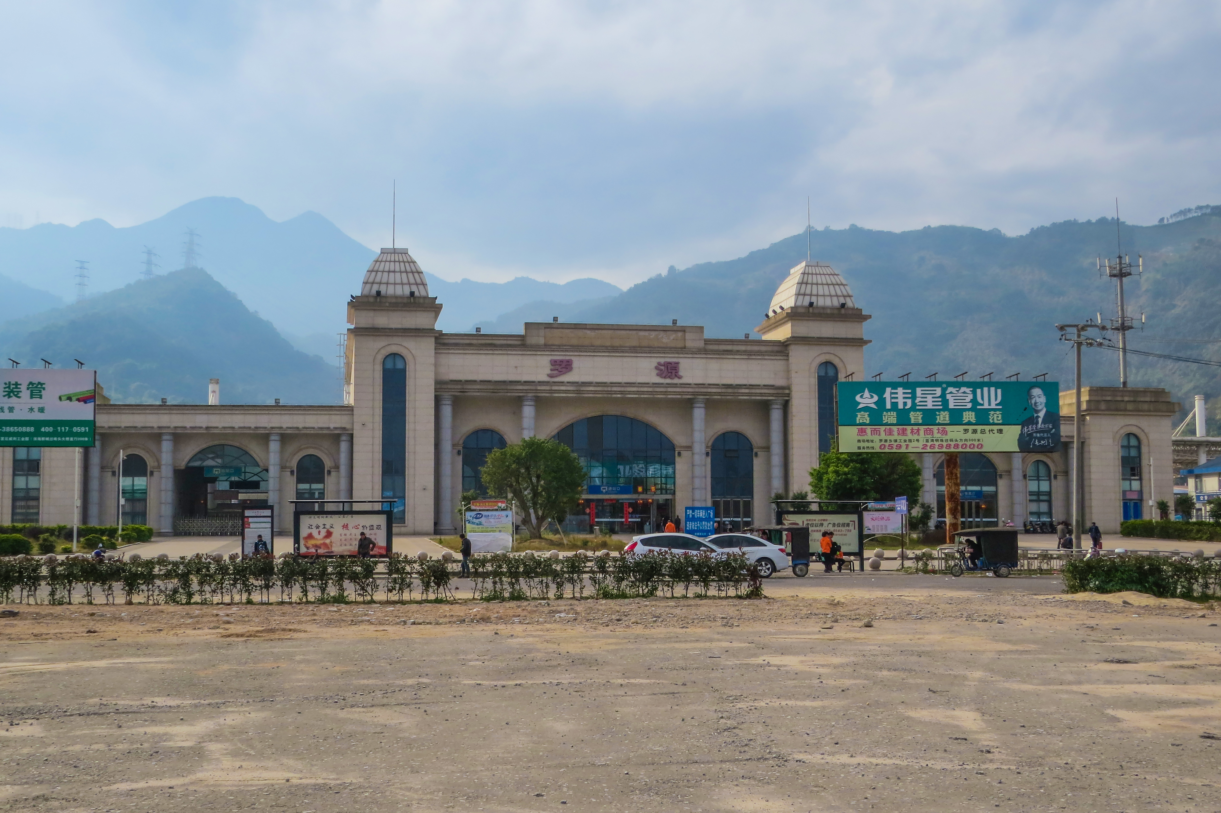 What a European architecture! But the station square is yet to be completed... I think this facade is more suitable for a white-tie affair.